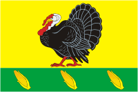 Khopyorskoe (Krasnodar krai), flag